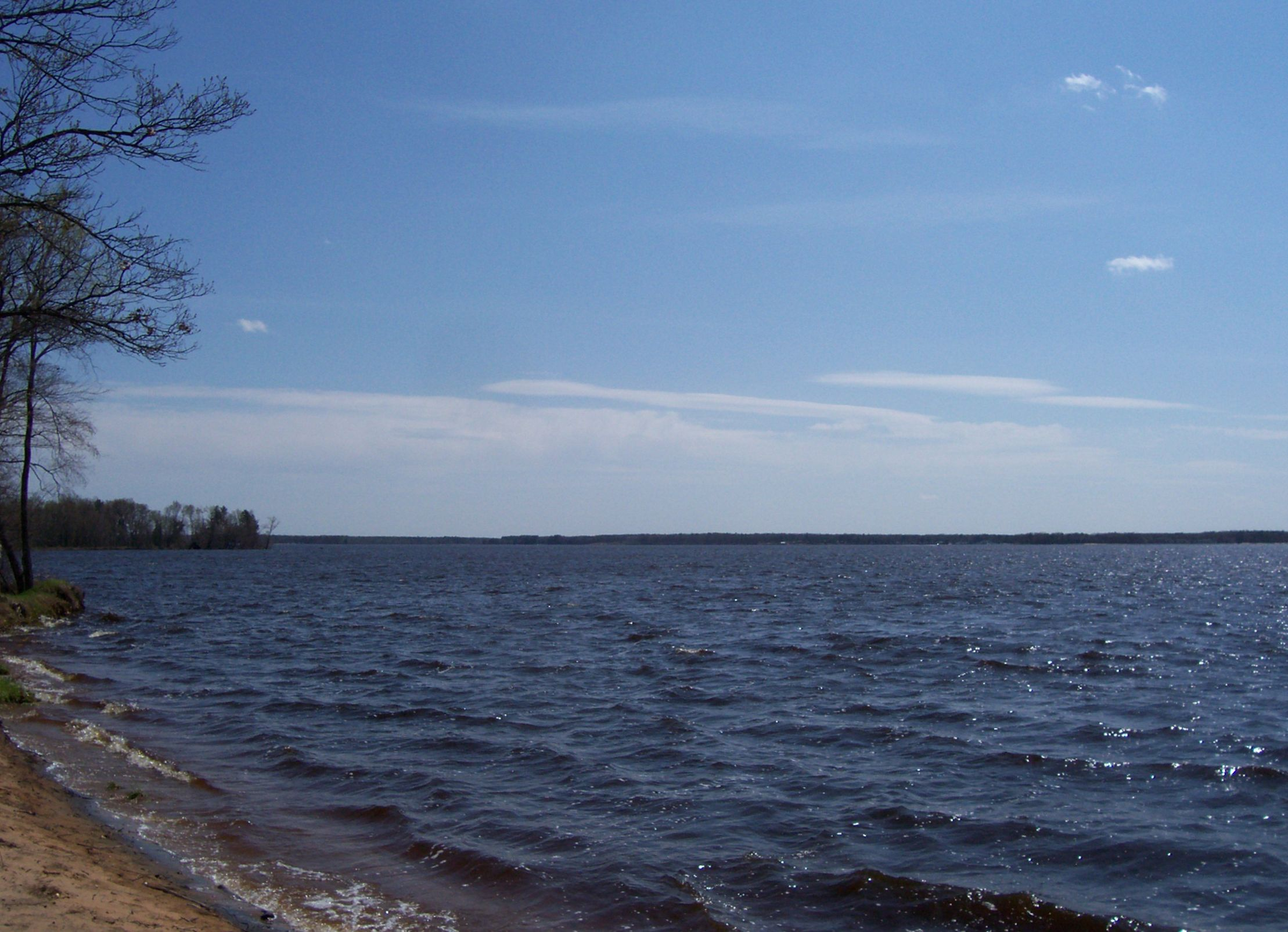 The Wisconsin River at Buckhorn State Park near Necedah, Wisconsin, USA.